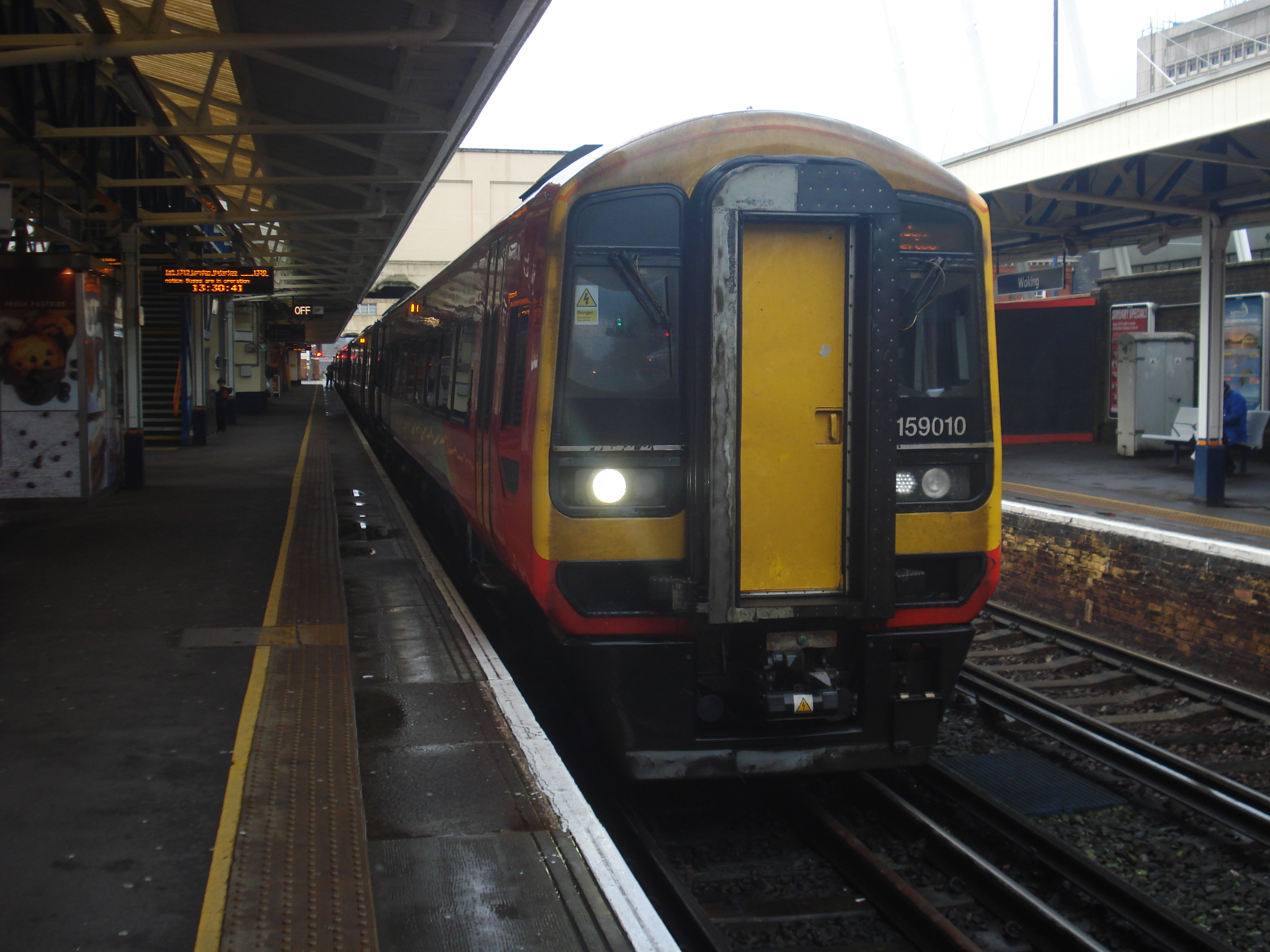 South West Trains No. 159010 at Woking. All services on SWT's West of England route, which runs from London Waterloo to Salisbury, Yeovil, Westbury, Gillingham, Bristol, Weymouth (summer) and Exeter, stop here.